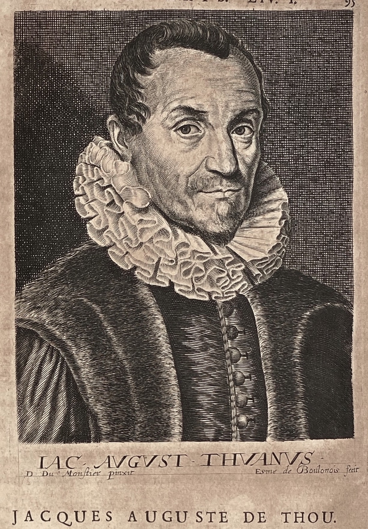 Half-length portrait of Jacques Auguste de Thou, president of the parliament of Paris, facing to the right. Drawn by Daniel Dumonstier, engraved by Esme de Boulonois. Isaac Bullart. Académie Des Sciences Et Des Arts. - Amsterdam: Elzevier, 1682.